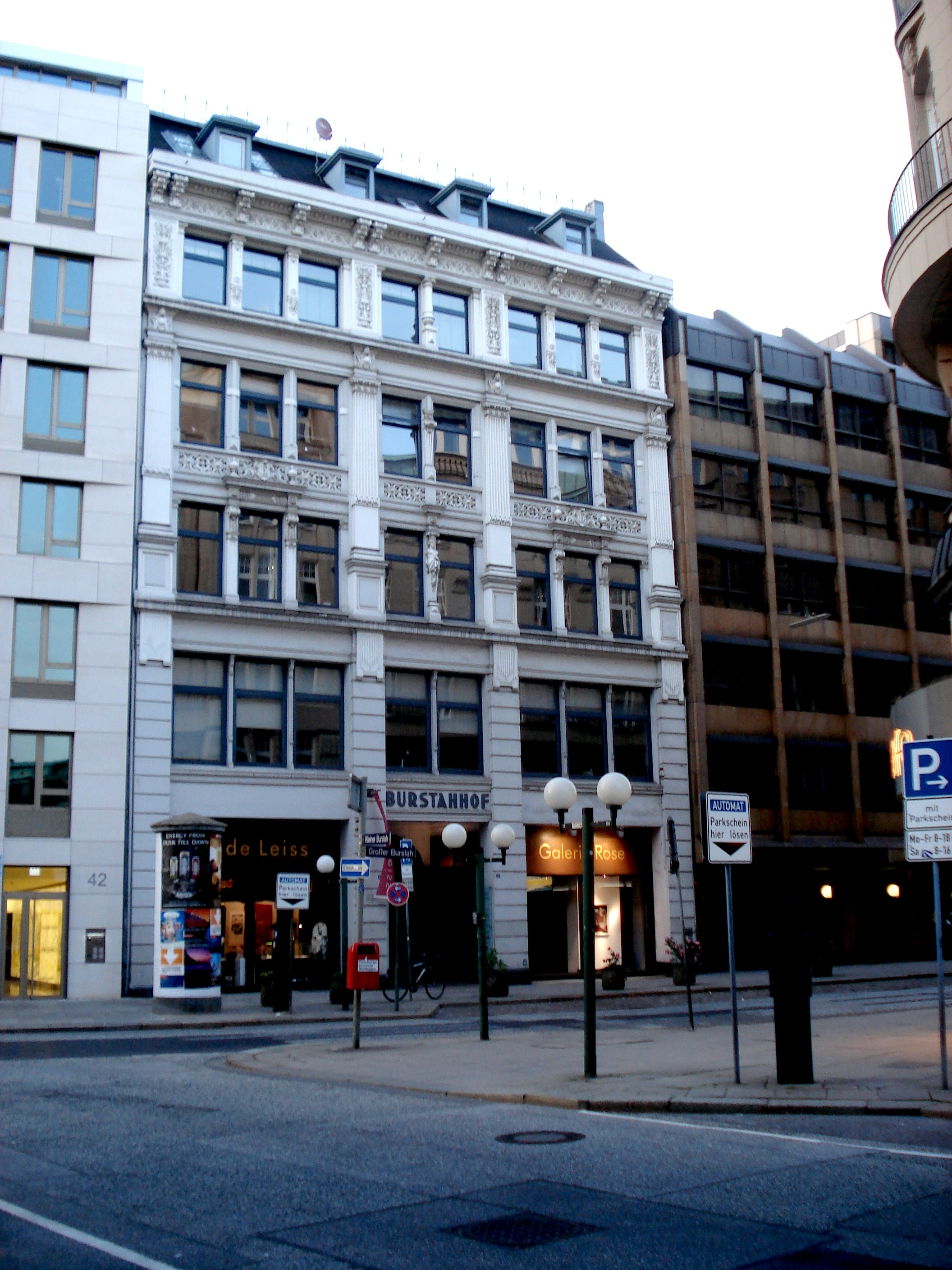 The Burstahhof, the first Kontorhouse in Hamburg-City in the year 2011